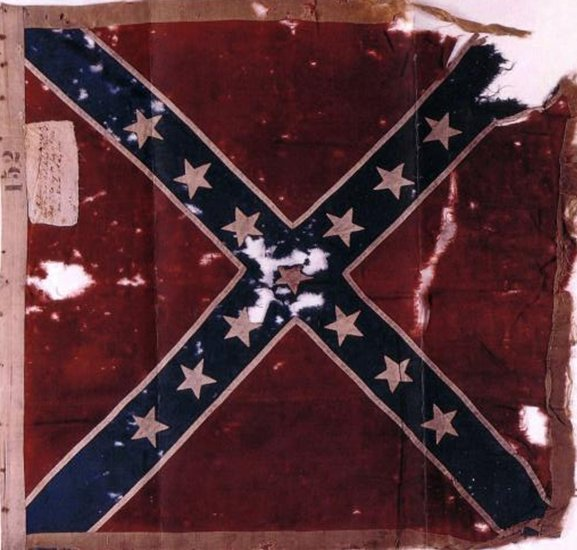 Battleflag of the 49th North Carolina Troops